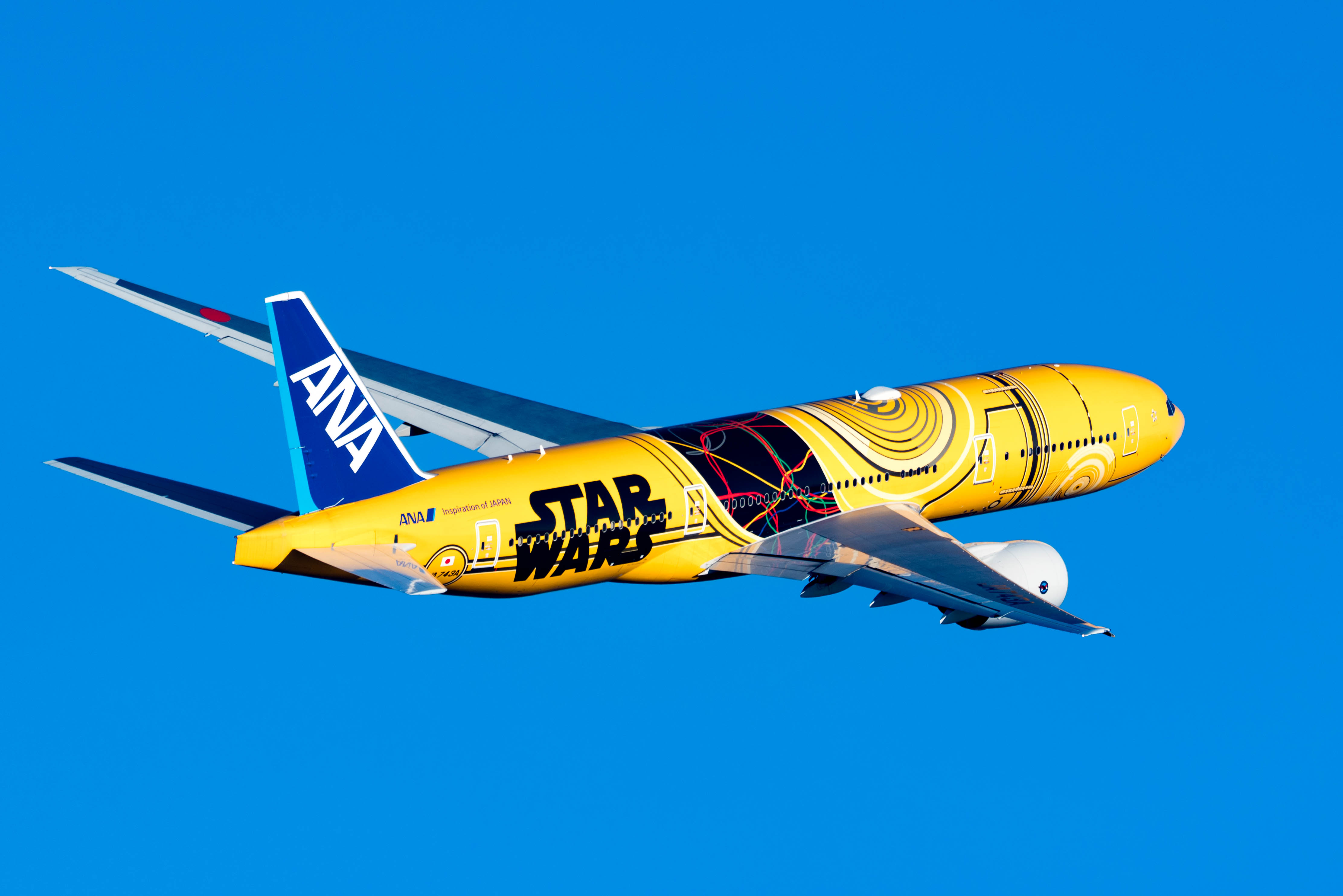 All Nippon Airways Boeing 777-281(ER) at Tokyo Haneda Airport